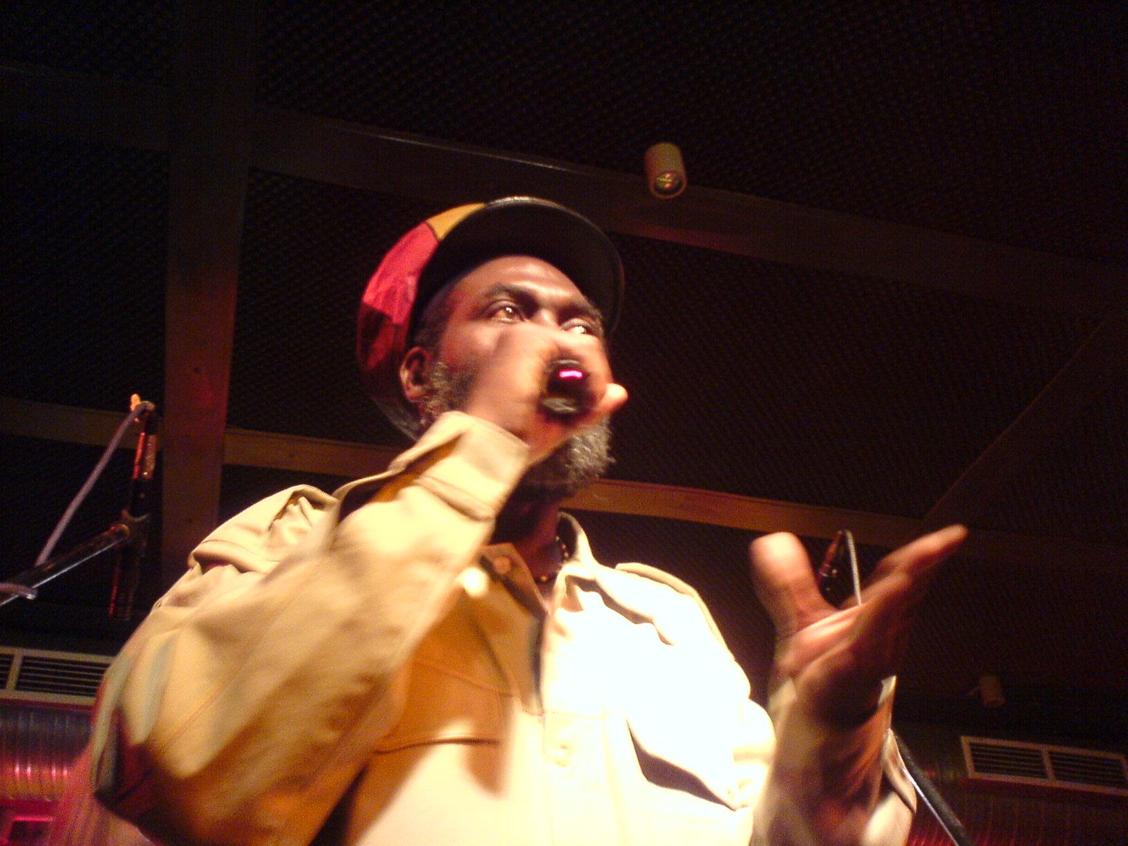 Mikey Dread, jamaican singer, producer, and broadcaster